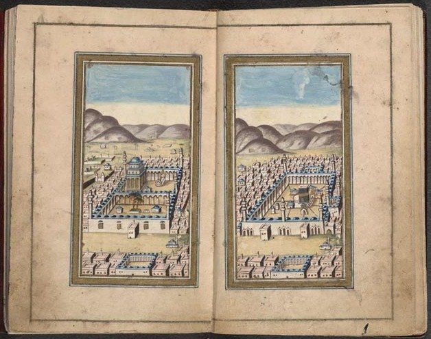 A fifteenth century (AH) manuscript of Dalail Khayrat with picture of Masjid-e-Nabvi and Haram Sharif